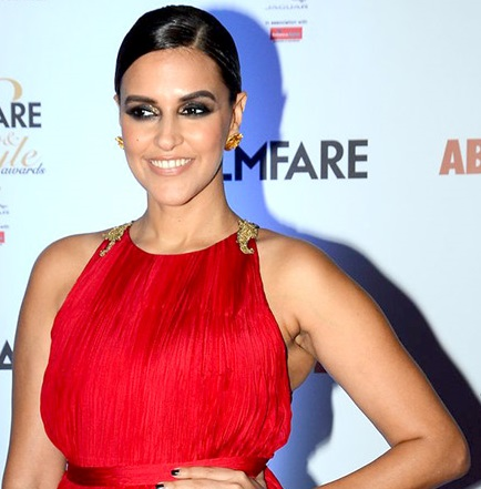 at grace Filmfare Glamour & Style Awards 2016